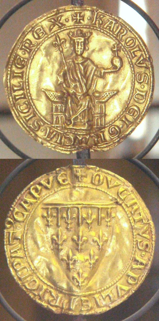 Golden bull of Charles I of Anjou, King of Sicily